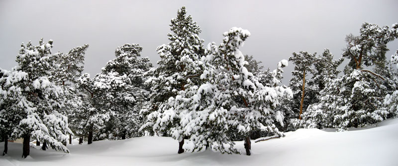 Snow covered trees.